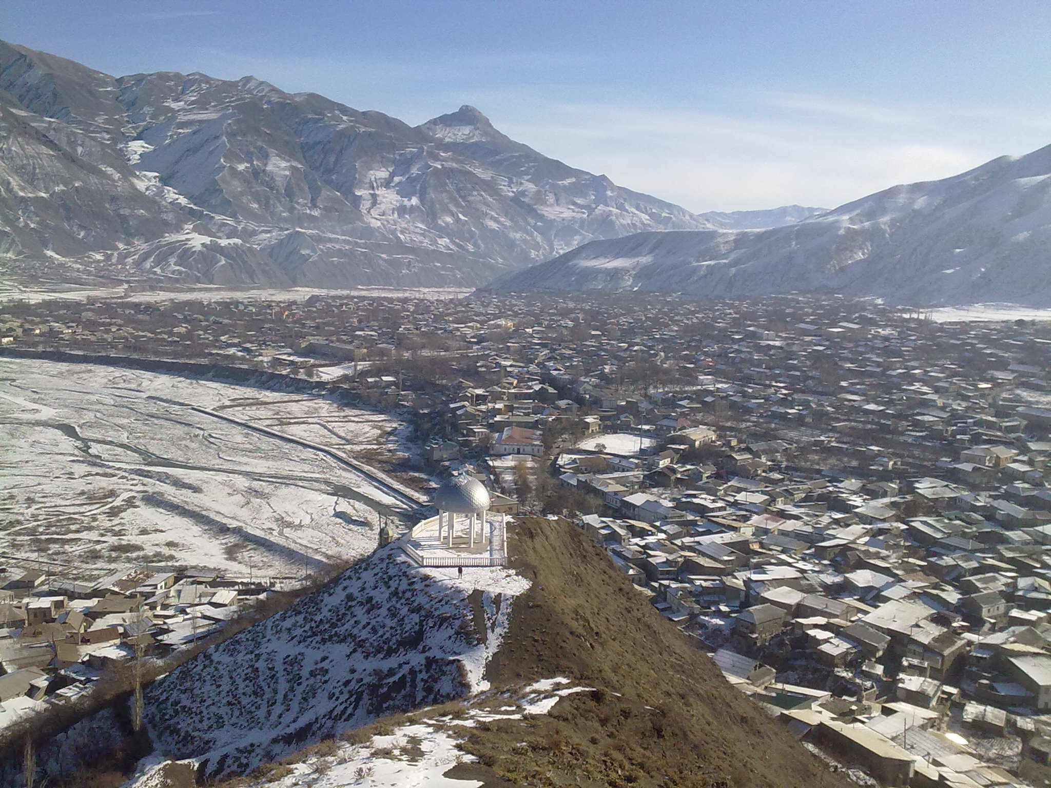 Right bank of the Akhtychay river within the town of Akhty.